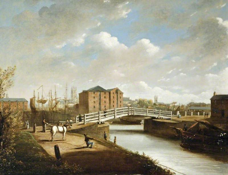 Smith, Edward; Llanthony Bridge, Gloucester; Gloucester Museums Service Art Collection